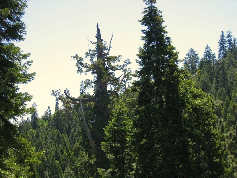 The Boole Tree — an ancient Sequoiadendron giganteum (Giant Redwood), in the Converse Basin Grove, Sequoia National Forest, Sierra Nevada, California.